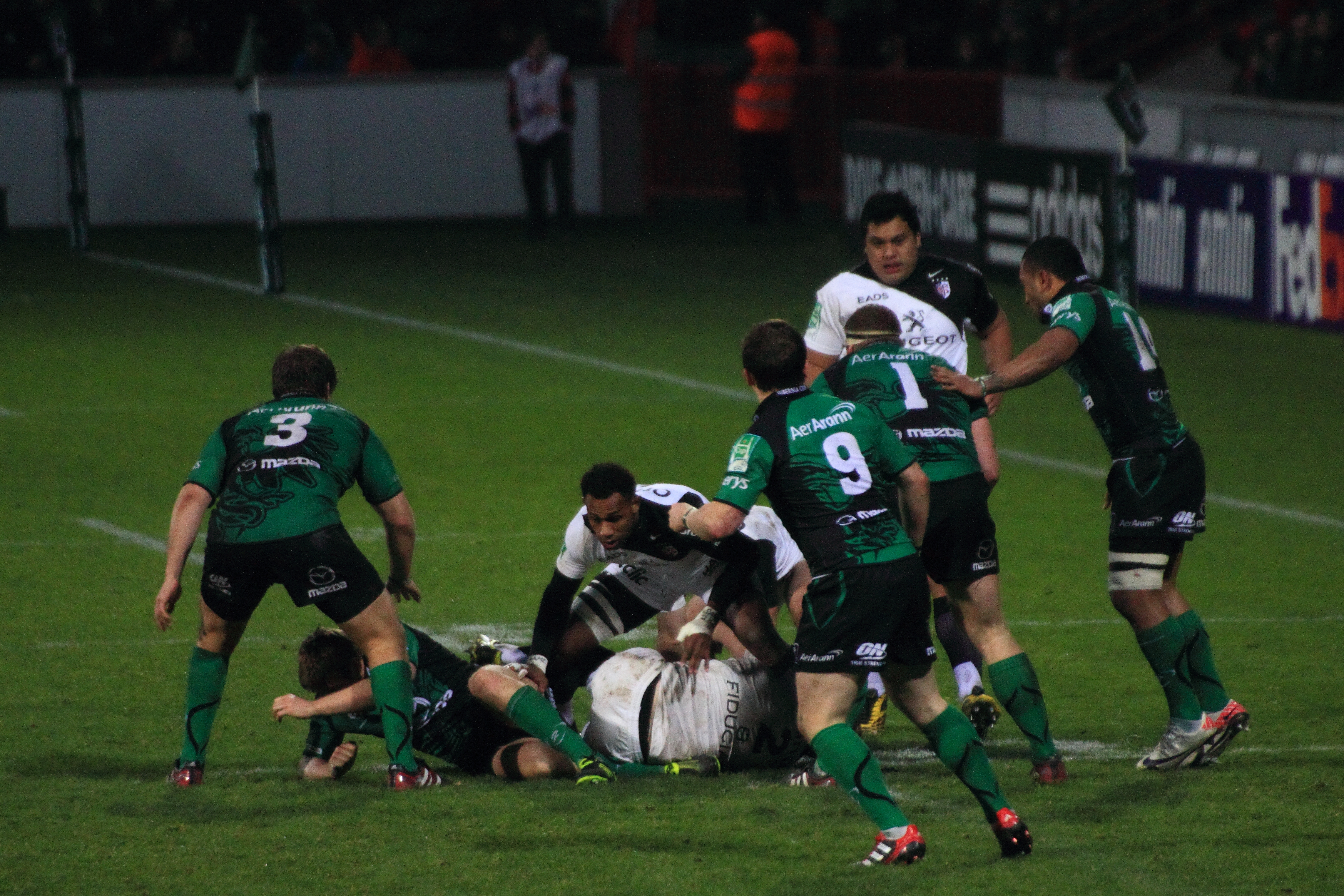 Heineken Cup 2011-2012 — 14 January 2012, Stade Ernest-Wallon. Match between: Stade toulousain — Connacht Rugby